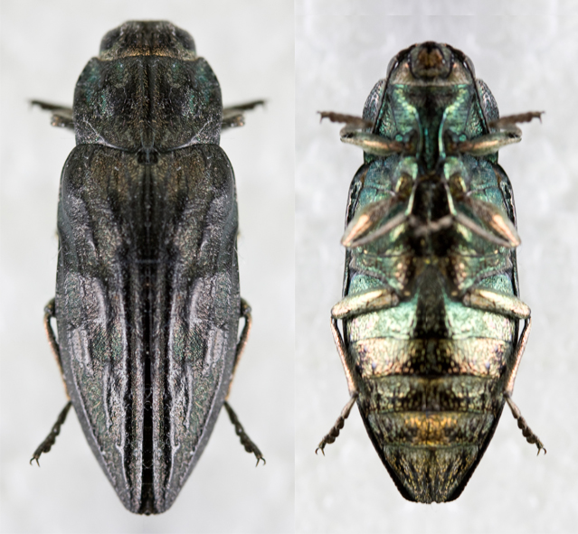 A wood-boring beetle in my collection. Caught at Hogsback Mountain, Marquette, MI.